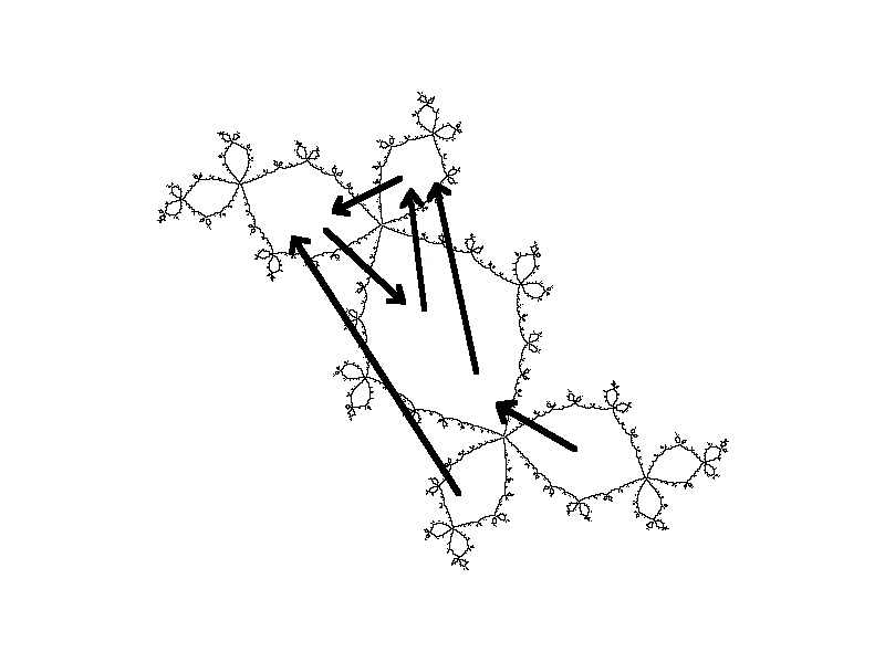 Algorithm for the Julia set : direct iterations. The picture has been processed with Gimp, hand made arrows ;)